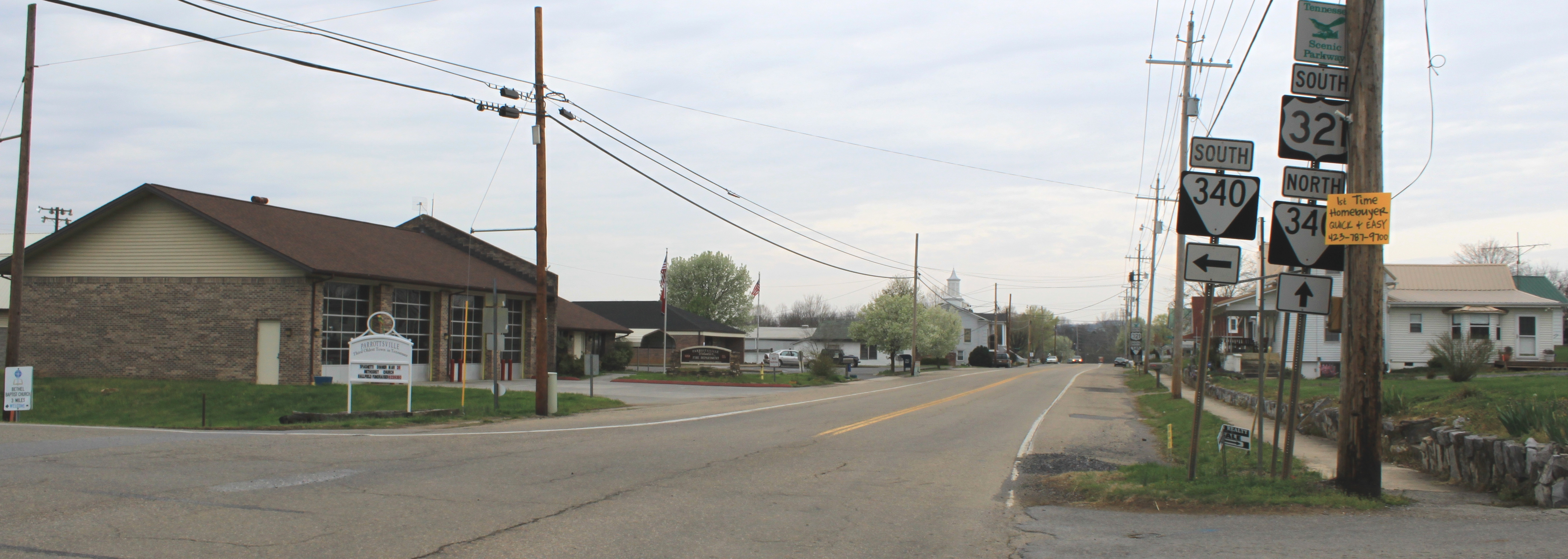 US 321 (John Sevier Highway) facing south at Baltimore Road, Parrottville, Tennessee